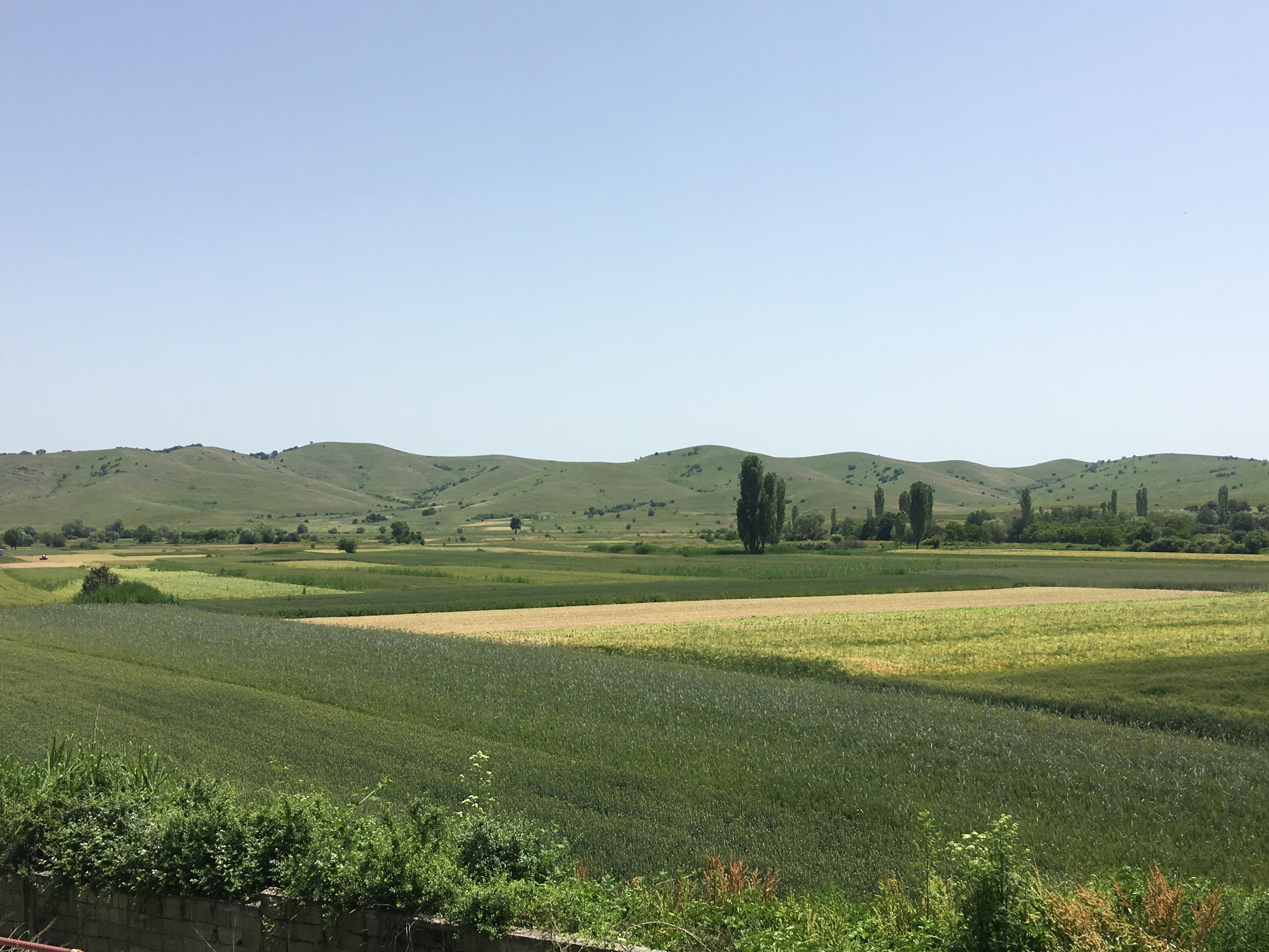 Fields in the surrounding of the village of Ivanjevci